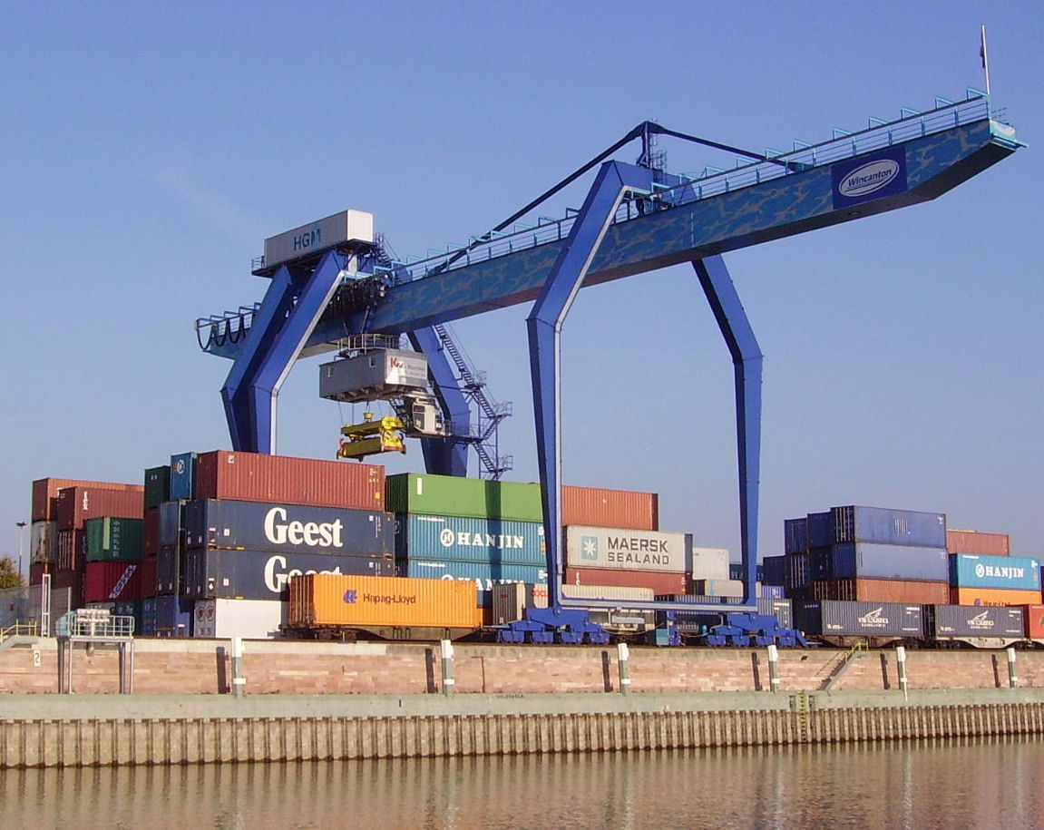 port of Mannheim, Germany